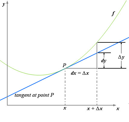 Graph to show a differential.